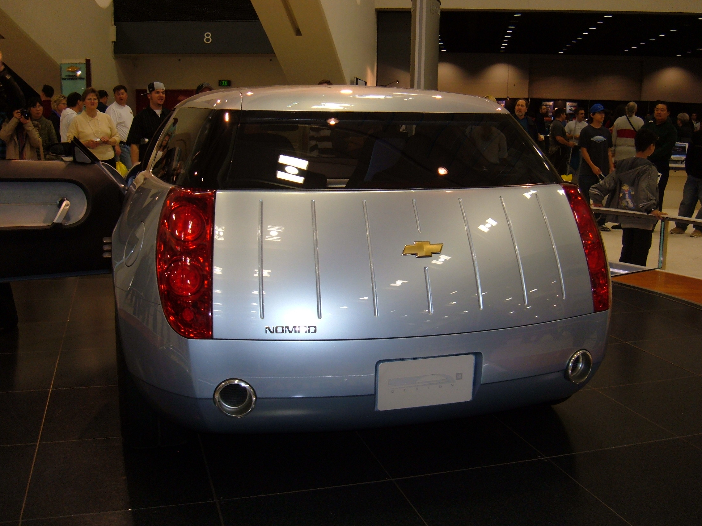 A Chevrolet Nomad at the 2004 San Francisco International Auto Show.